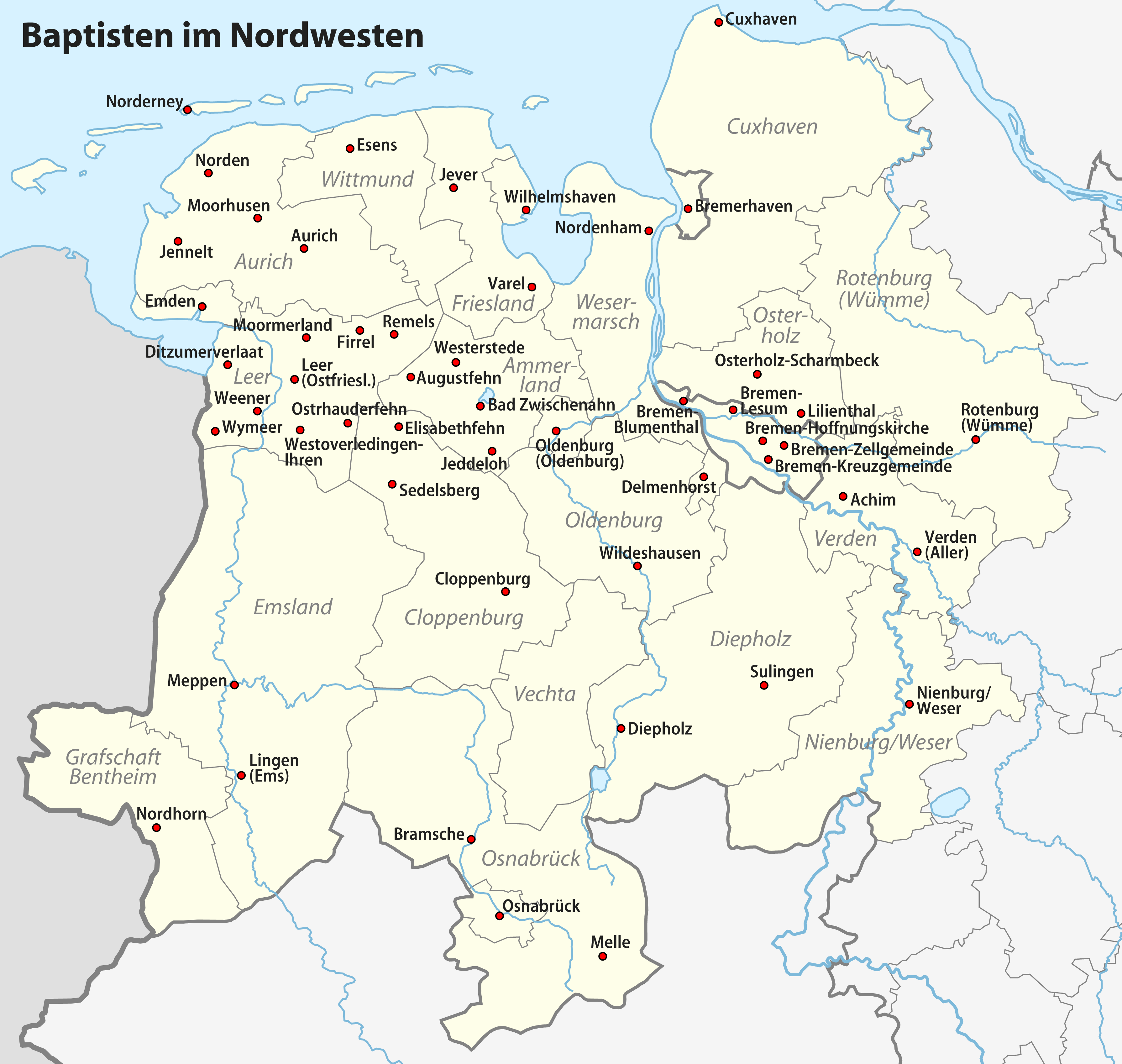 Map of the parishes of the Union of Evangelical Free Church Congregations in Germany, section Northwestern Germany